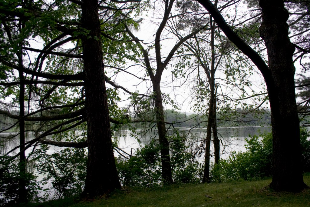 Despite the rain, it was pretty.